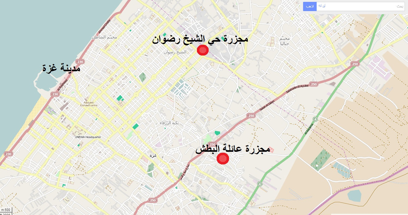 Massacres 12.07.2014 This map may be incomplete, and may contain errors. Don't rely solely on it for navigation.